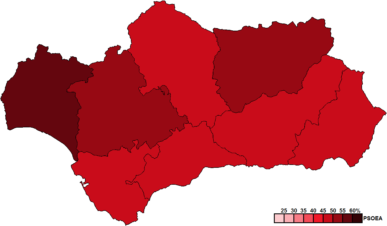 Provincial results for the 1990 Andalusian regional election.